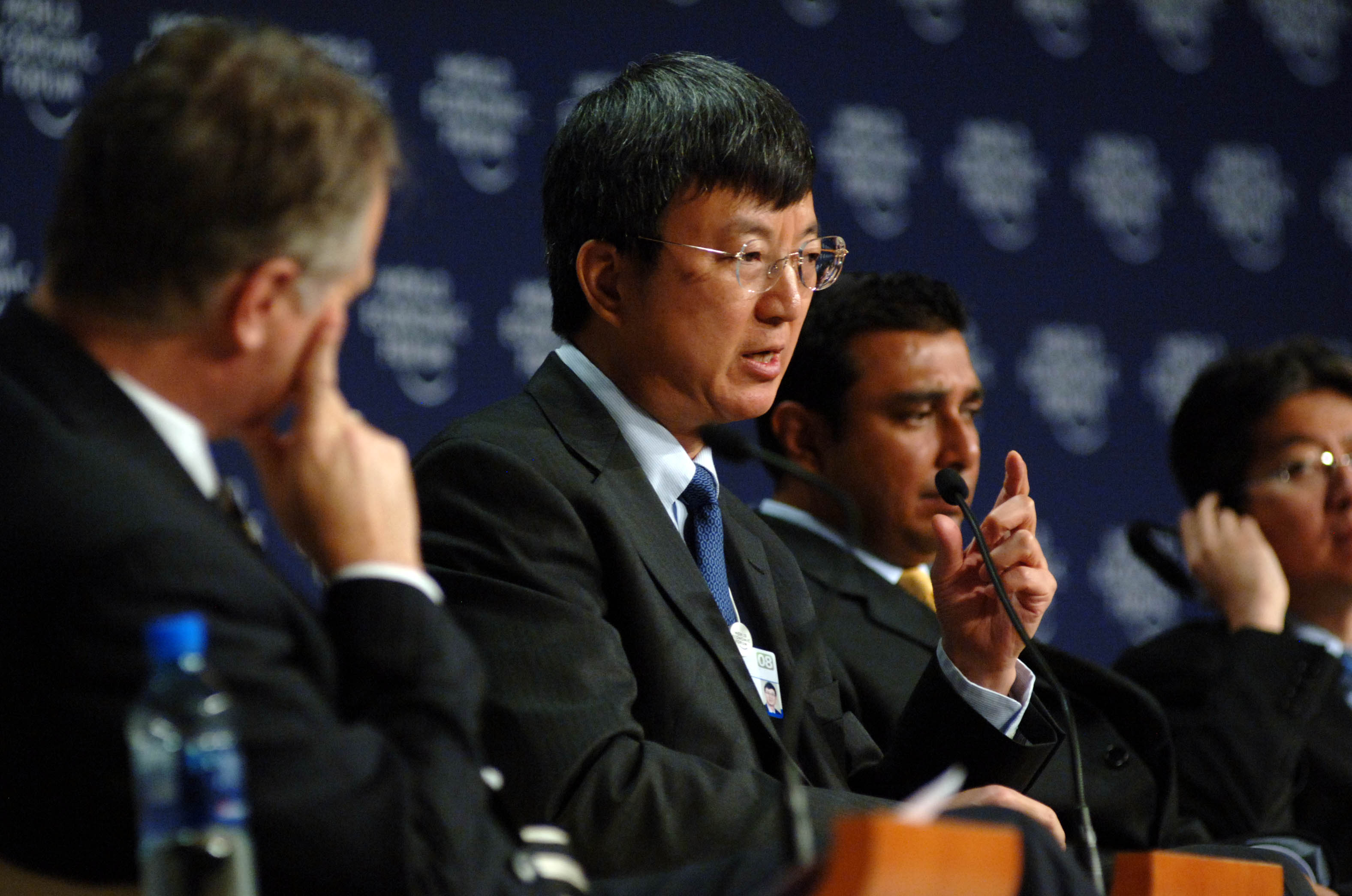 TIANJIN/CHINA, 28SEPT08 - Zhu Min, Group Executive Vice-President, Bank of China, speaks during the Looking beyond the Almighty Dollar plenary session at the World Economic Forum Annual Meeting of the New Champions in Tianjin, China 28 September 2008. Copyright World Economic Forum ( by Adam Nadel